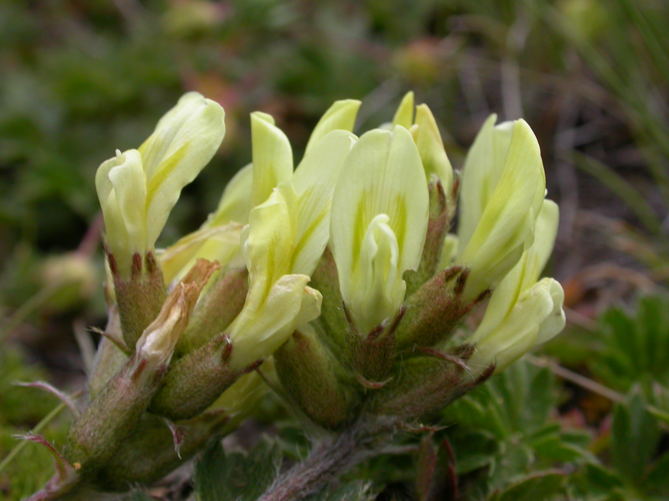 Oxytropis campestris s.str. Zermatt, Riffelberg (Kanton Wallis, Switzerland), 2500 m Author: Barbara Studer – own photograph Date: 2.08.06